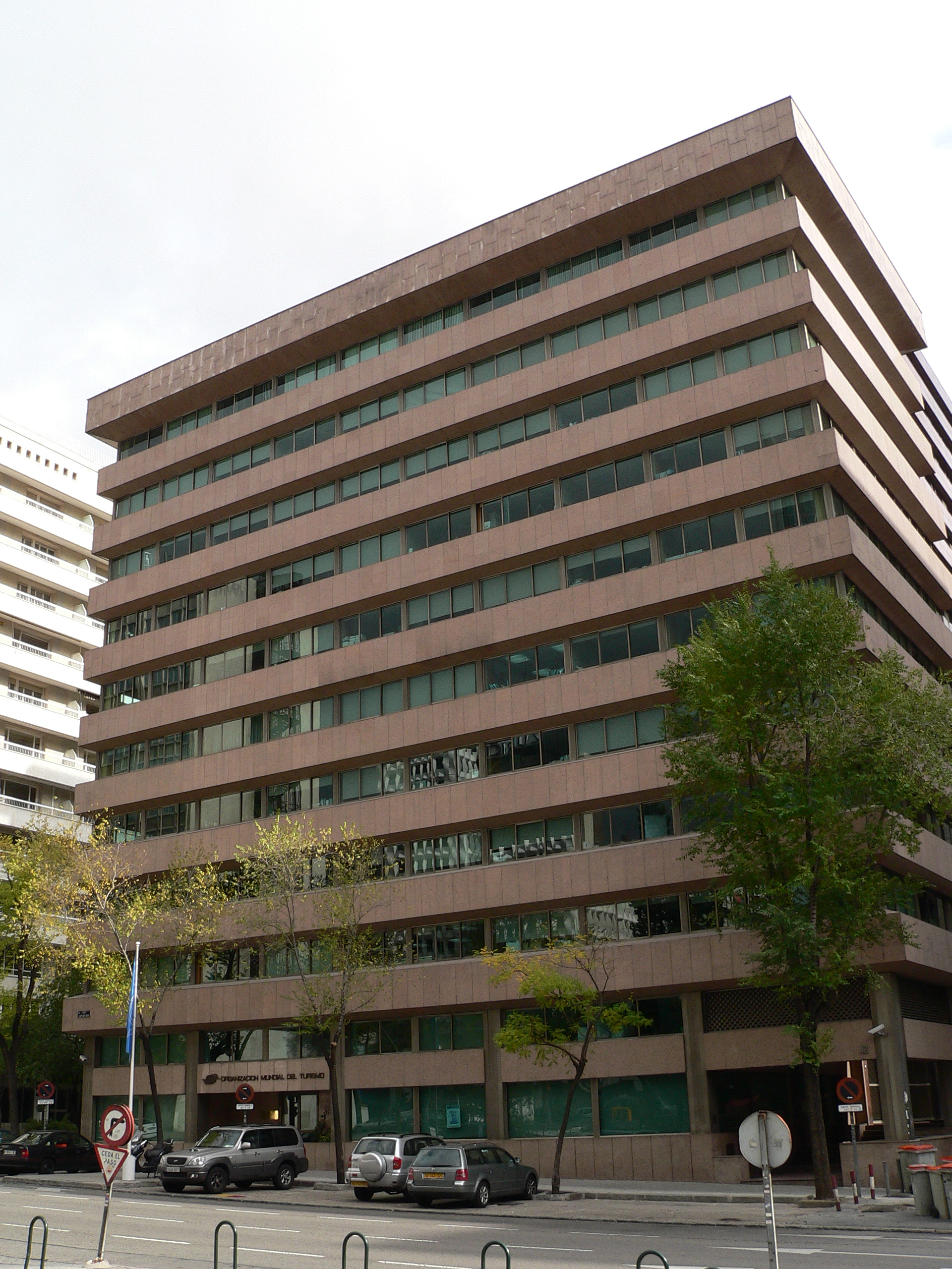 Description: U.N. World Tourism Organization (UNWTO) headquarters Subject: City: Madrid Country : Spain Photographer: © Manuel González Olaechea y Franco Shot date : November, 1st , 2005